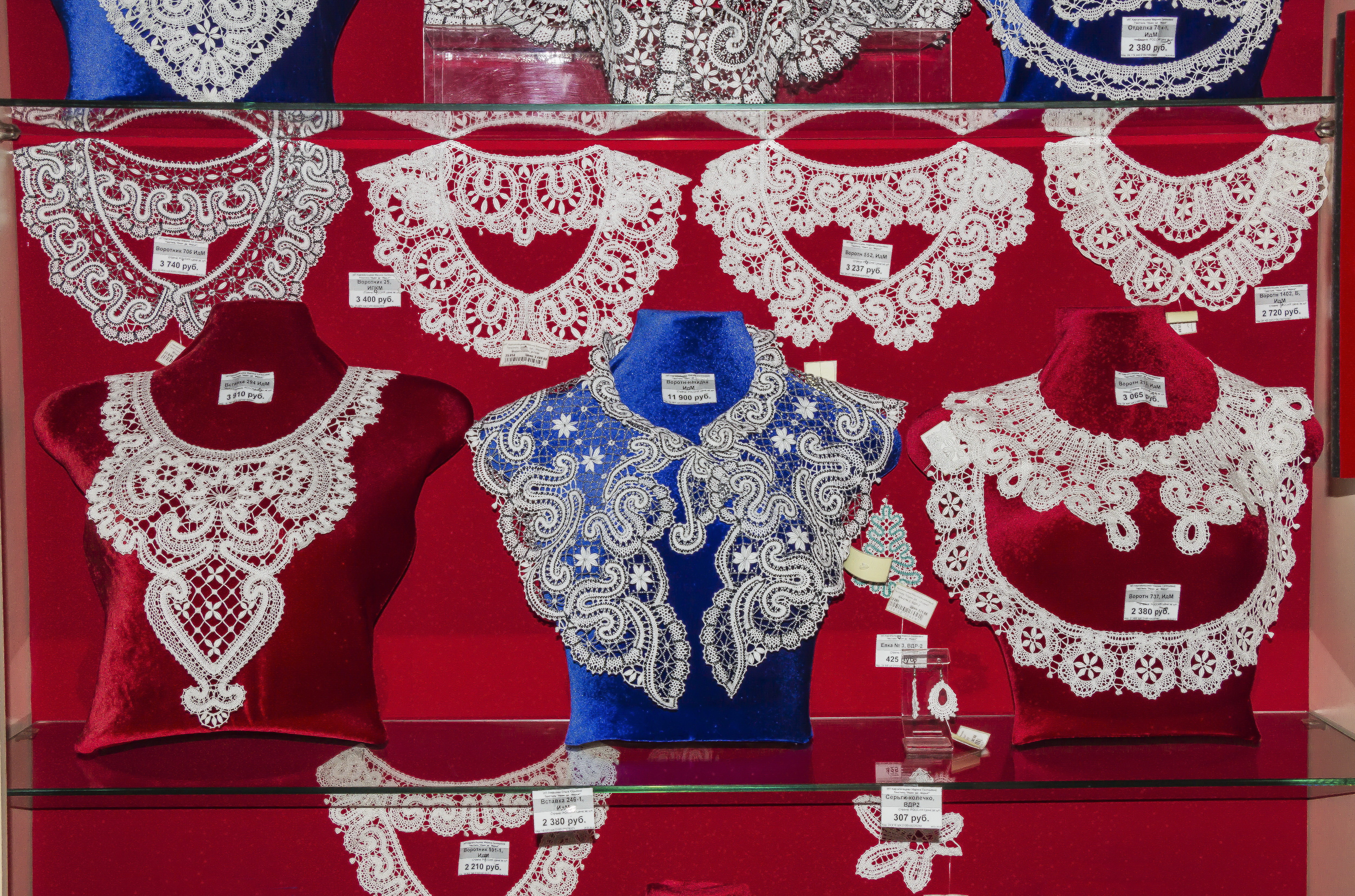 This image has been uploaded for Wikivoyage travel guide on Киров